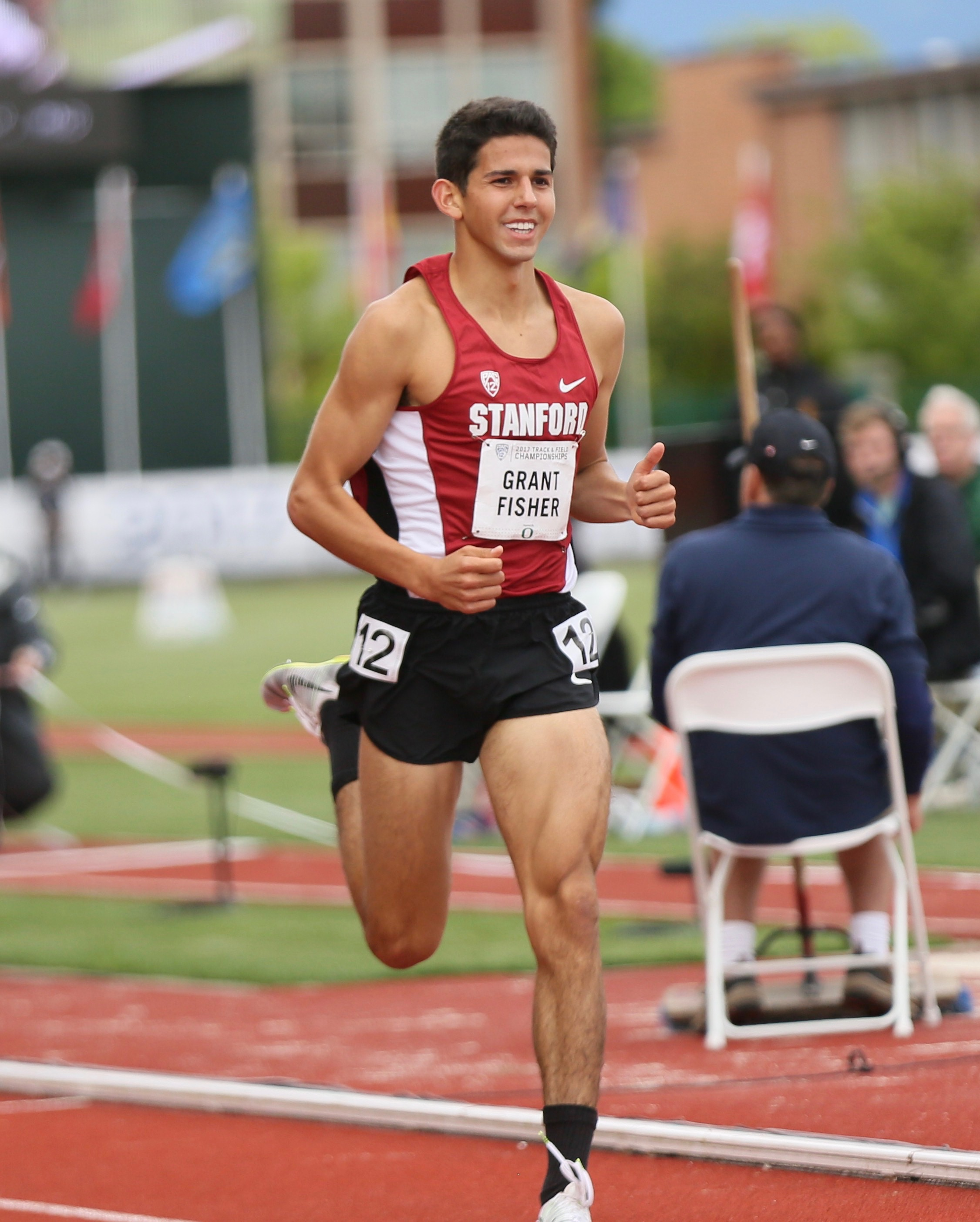 Grant Fisher at the 2017 PAC 12 Outdoor Track and Field Championships